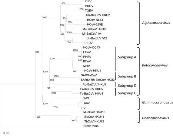 Phylogenetic analysis of RNA-dependent RNA polymerases (Pol) of coronaviruses with complete genome sequences available. The tree was constructed by the neighbor-joining method and rooted using Breda virus polyprotein. Bootstrap values were calculated from 1000 trees. 1118 amino acid positions in Pol were included. The scale bar indicates the estimated number of substitutions per 20 amino acids. All abbreviations for the coronaviruses were the same as those in Figure 1.